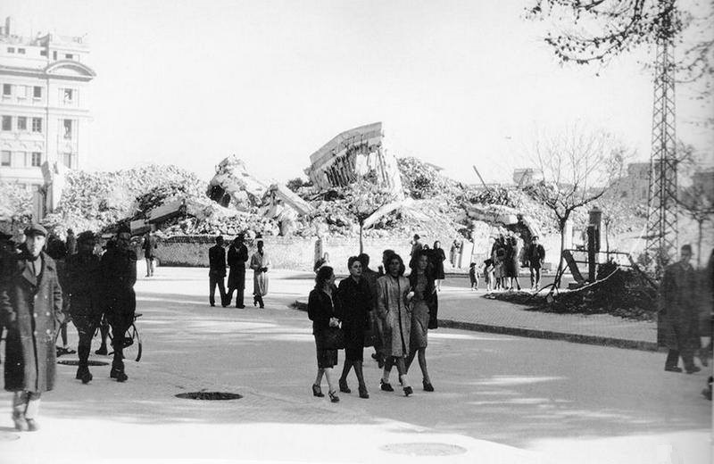 carducci bombardata pescara